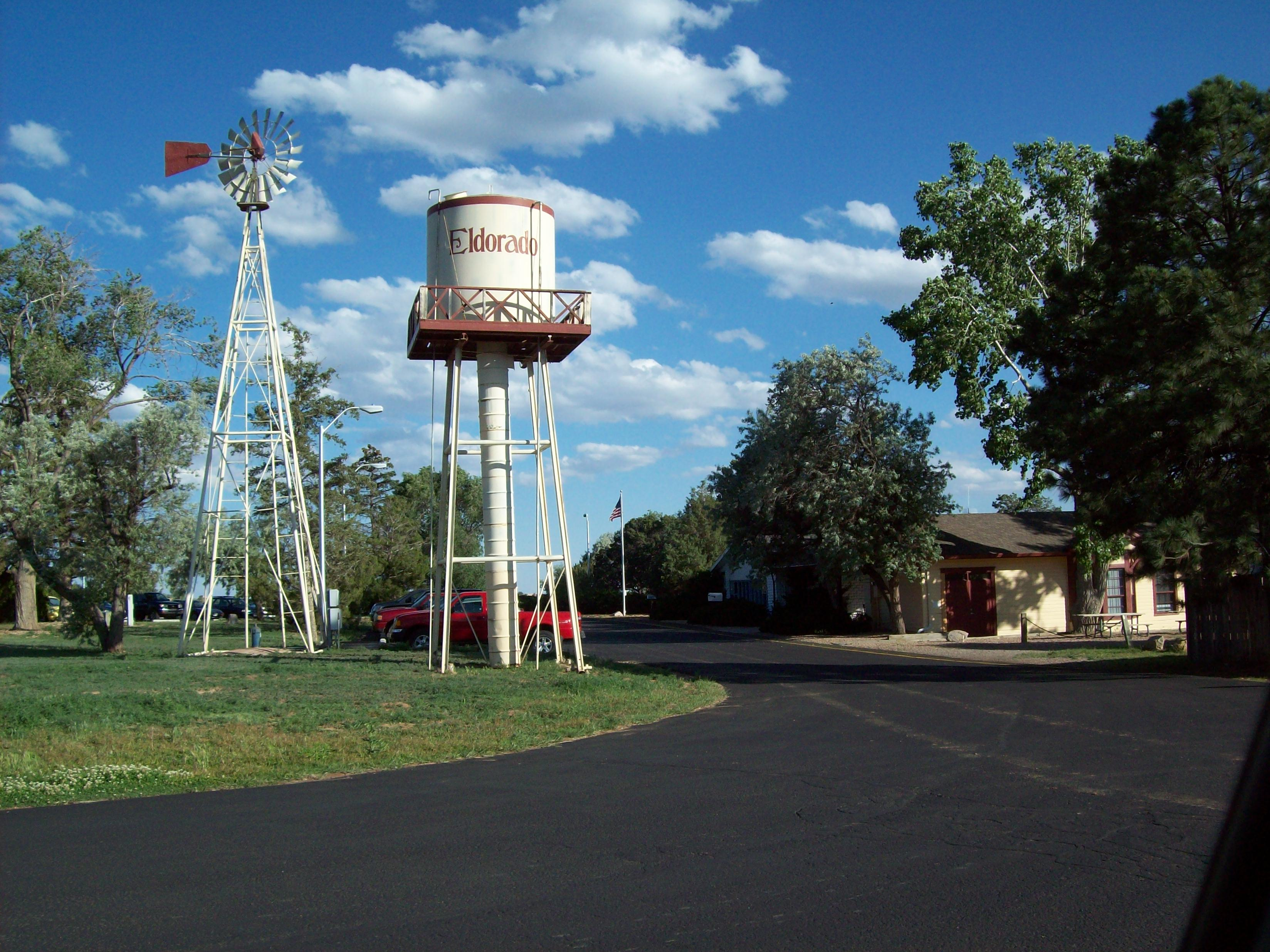 Eldorado at Santa Fe Community Offices. The Eldorado at Santa Fe Community is supposedly the largest unincorporated community in New Mexico, but this is not true; South Valley is far larger. The yellow building in the background is a former train station from Kennedy, New Mexico and was built in 1907 before it was moved to Eldorado in the 1970's when Eldorado was being developed.